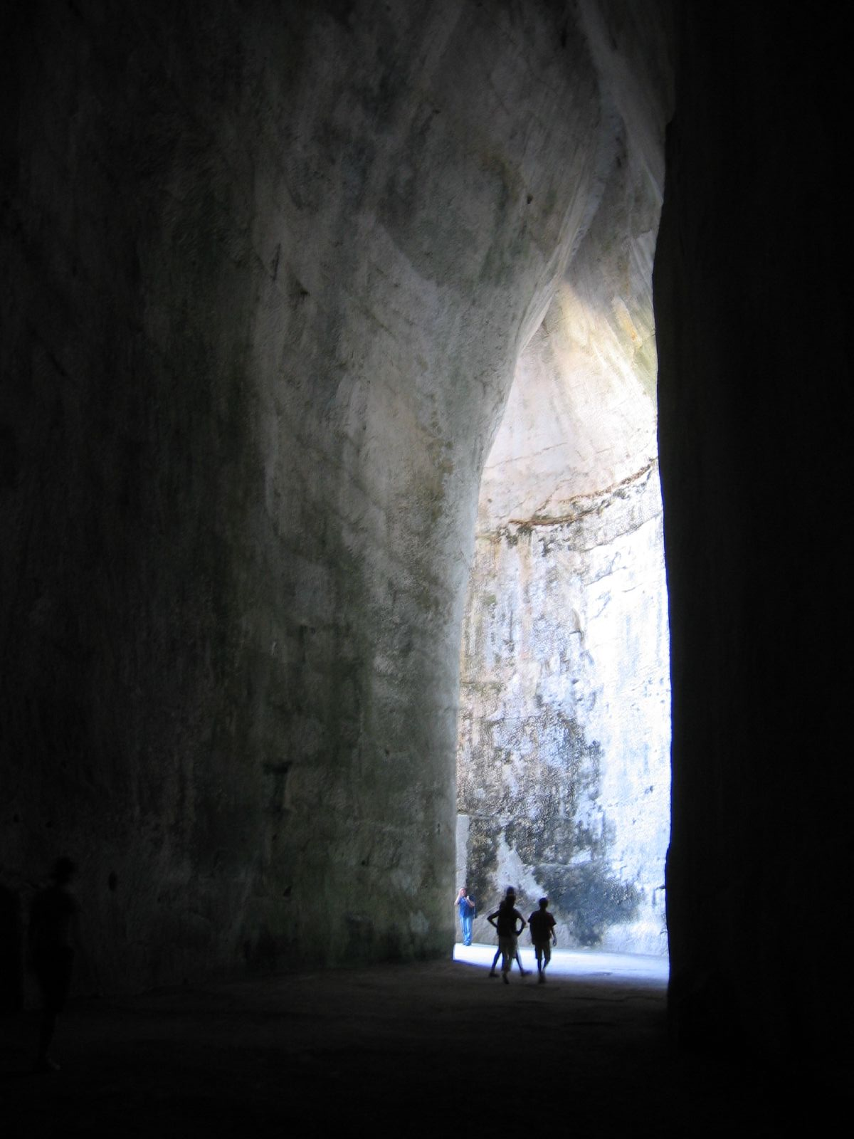 The Ear of Dionysius (Italian: Orecchio di Dionisio), an artificial limestone cave carved out of the Temenites hill in the city of Syracuse, Sicily, Italy.